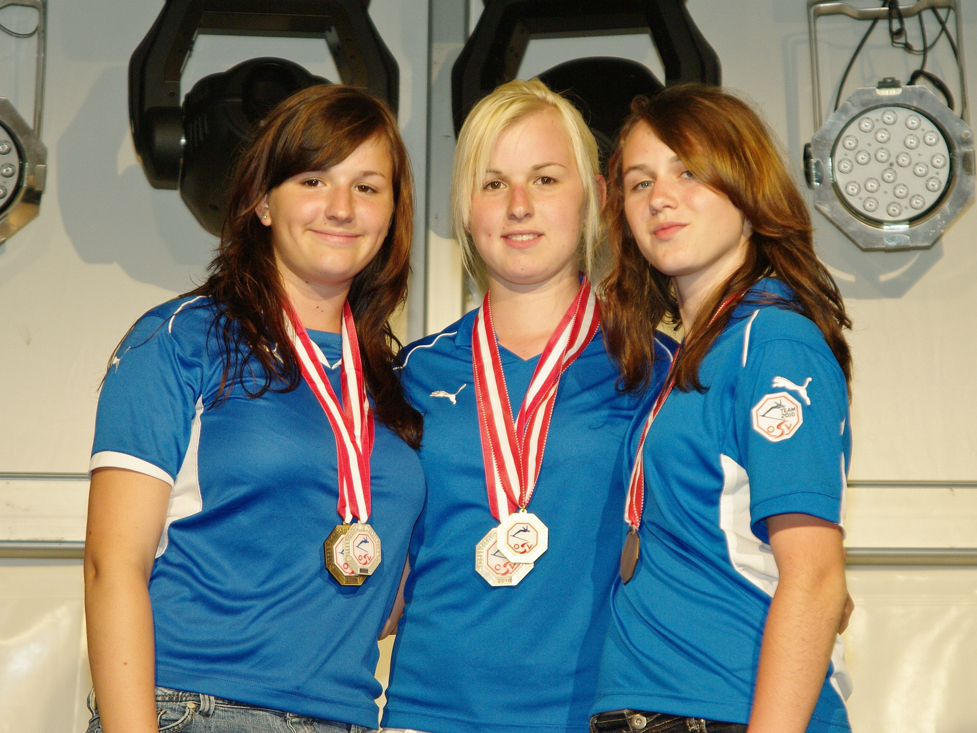 Austrian Grasski Championships 2010 in Rettenbach: Medal ceremony Juniors Super-G: 1st place and Austrian Junior Champion: Jacqueline Gerlach (middle), 2nd place: Nicole Gerlach (left), 3rd place: Daniela Krückel (right)